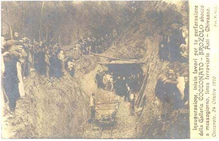 Brozolo gallery works - 1910